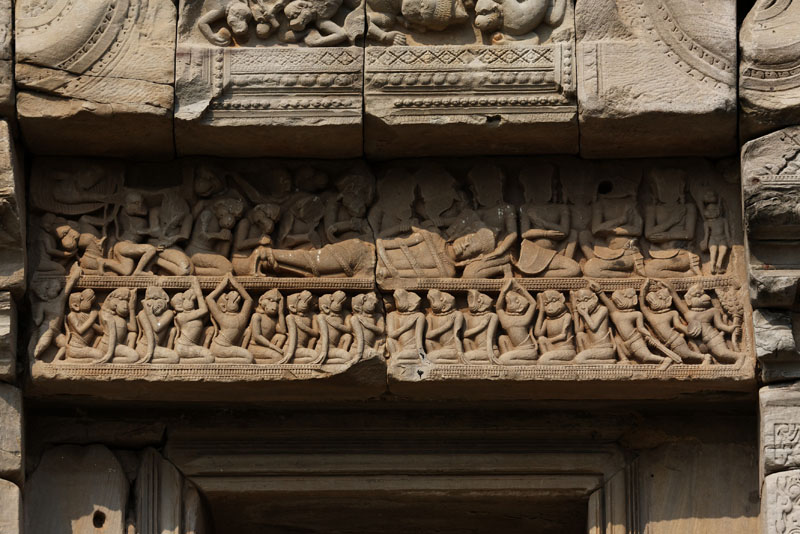 Phimai historical park, Nakhon Ratchasima, Thailand. It shows the west lintel of the mandapa with a scene from Ramayana - Rama and his brother Lakshmana entrapped in the coils of naga.